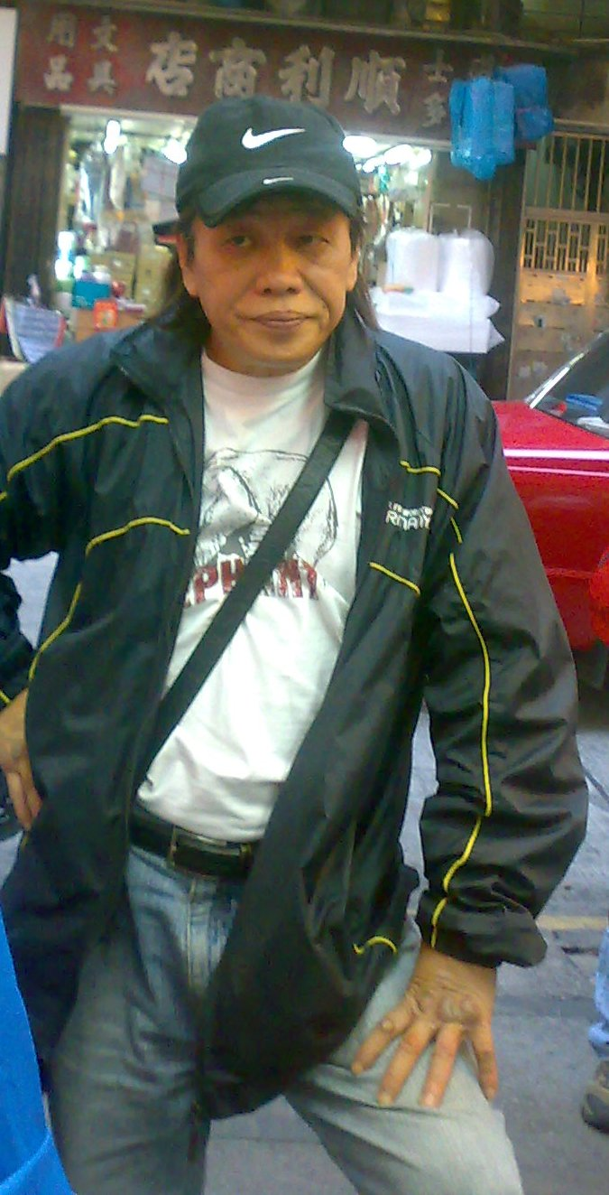 legendary Kung Fu movie actor Leung Siu Lung standing outside a restaurant in Hong Kong